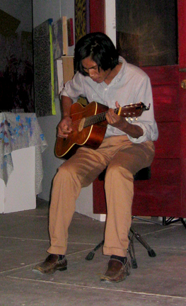 Jake Fragua, Jemez Pueblo, musician and artist